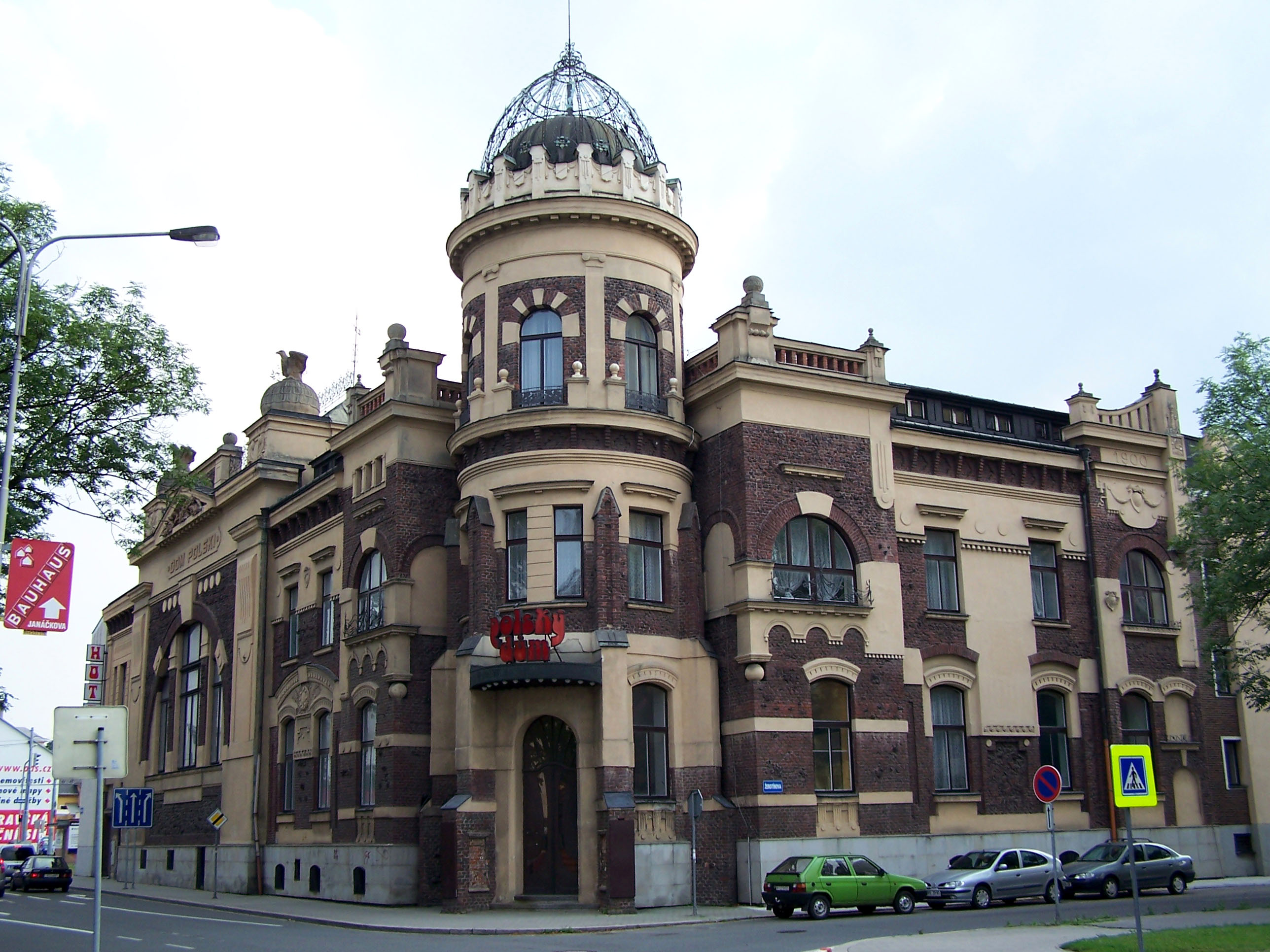 Polish House in Ostrava, Czech Republic